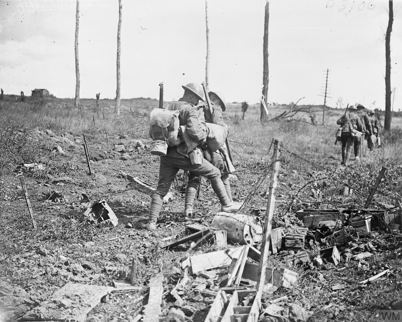 The Hundred Days Offensive, August-november 1918 The Advance in Flanders. Troops of the Royal Inniskilling Fusiliers, 36th Division, advancing from Ravelsburg Ridge to the outskirts of Neuve Eglise, 1 September 1918.